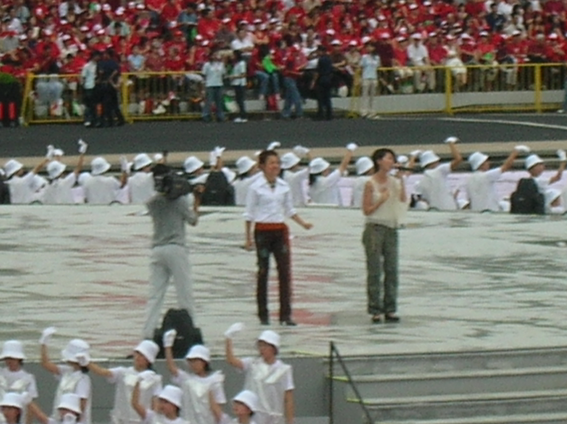 Singers Wendi Koh and Joi Chua performing the song Uniquely You during a National Day Parade rehearsal at the Padang in Singapore.